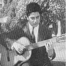 Luis Amaya. Folk musicians. Argentina